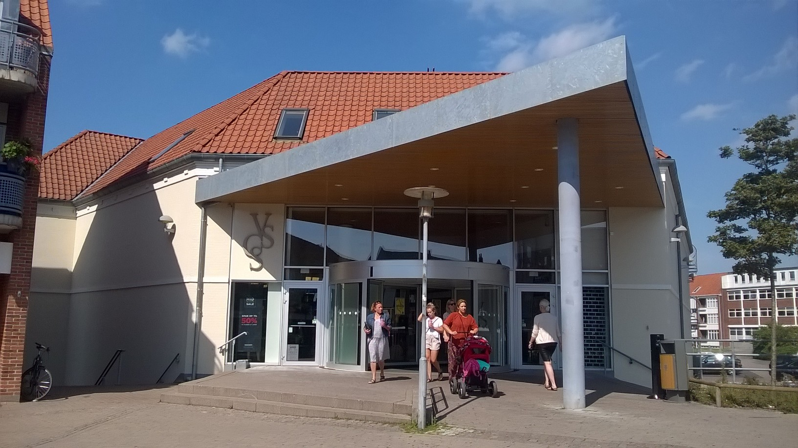 Shopping center in Slagelse, Denmark.